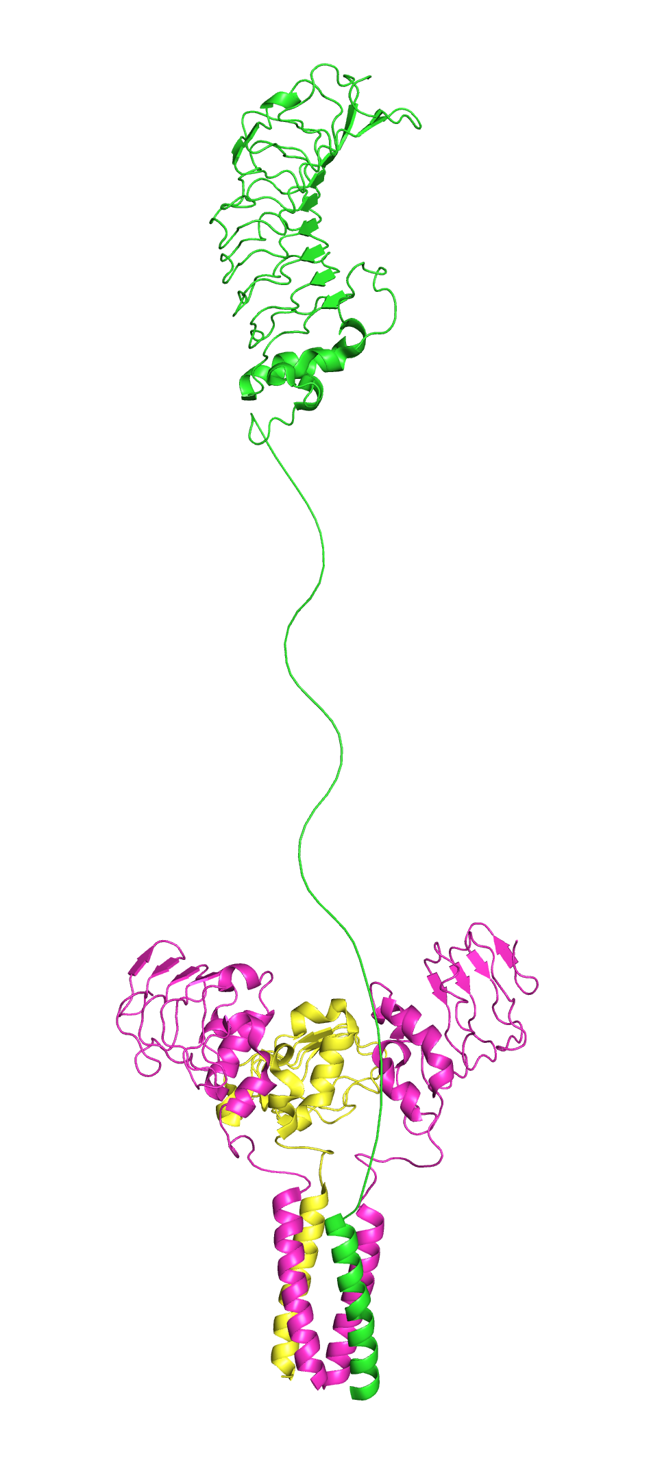 A model of the GP1b receptor. Although the exact structure is unknown, structures of individual units of this receptor complex have been solved by X-ray crystallography. GP1b alpha is shown in green, GP1b beta is shown in purple and GPIX is shown in yellow. Intra-cellular regions are not included in this model.